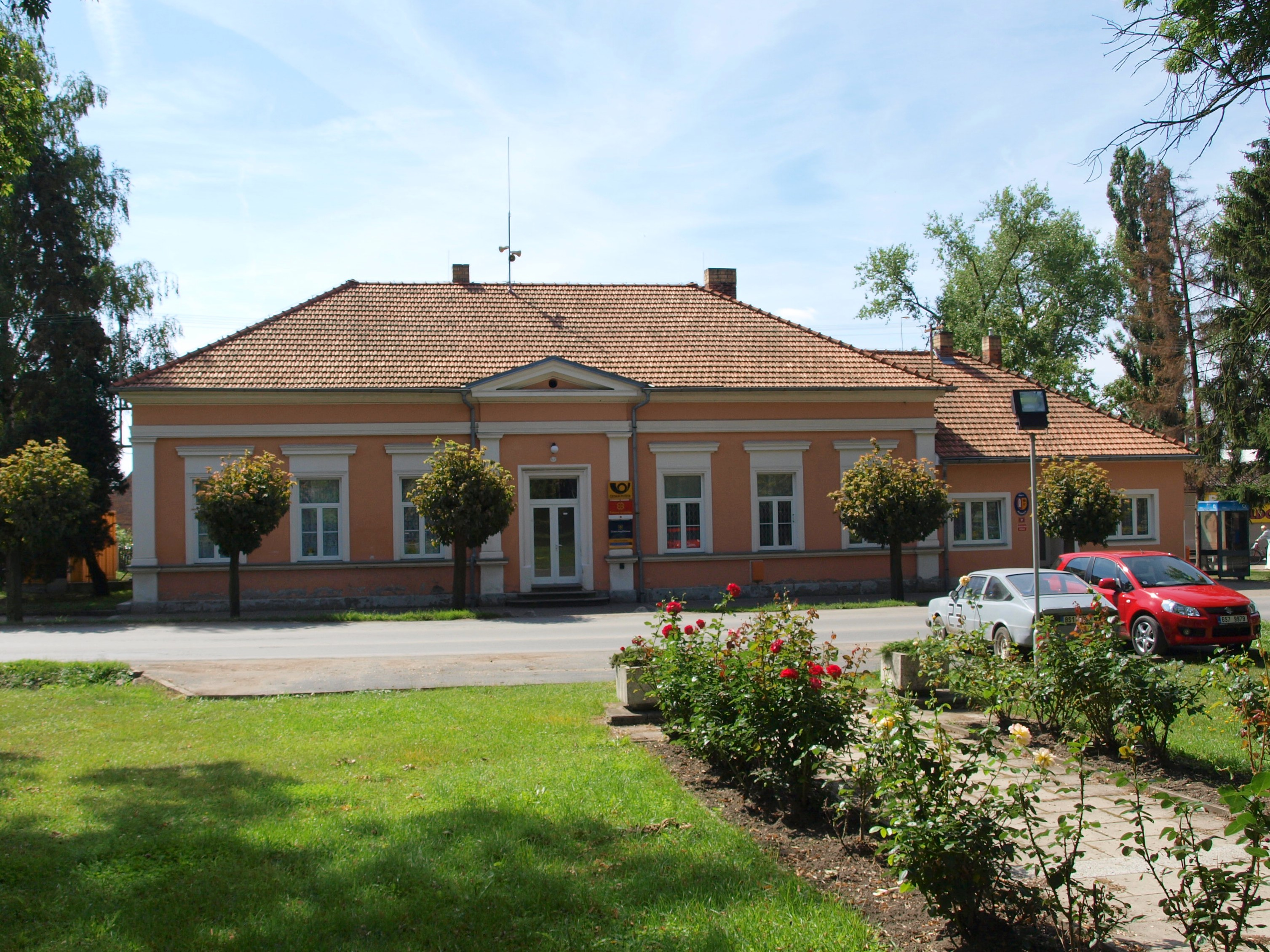 Post and municipal authority, Bobnice, Nymburk District, Central Bohemian Region